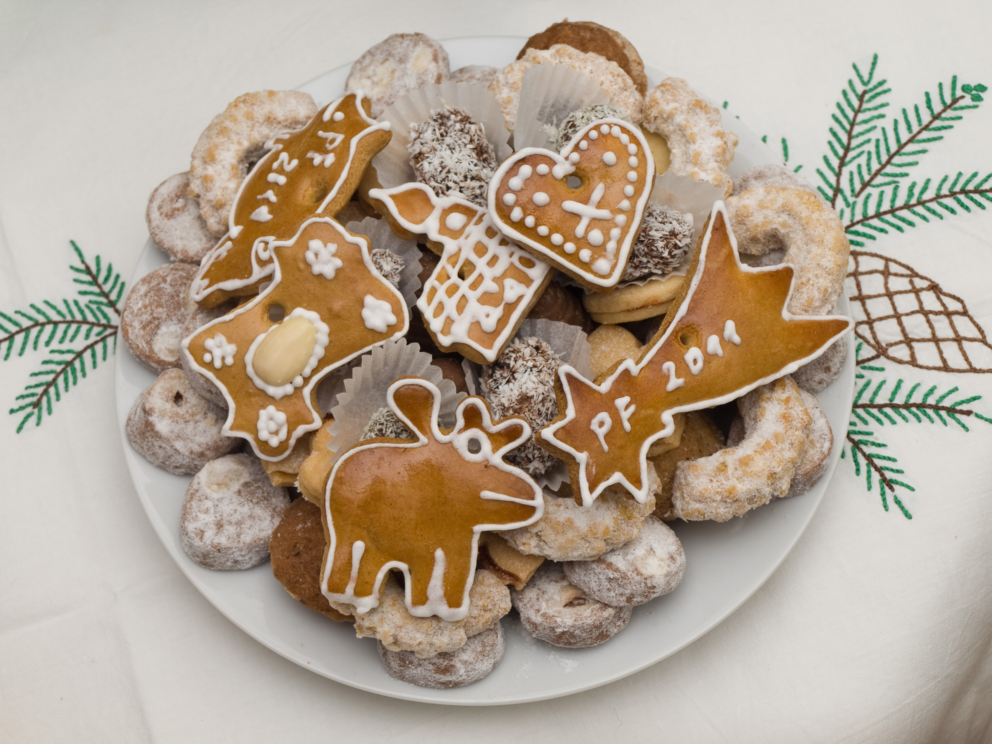 Christmas sweets, tradicional Czech christmas